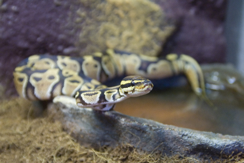 My python regius baby (royal python) male into his terrarium.